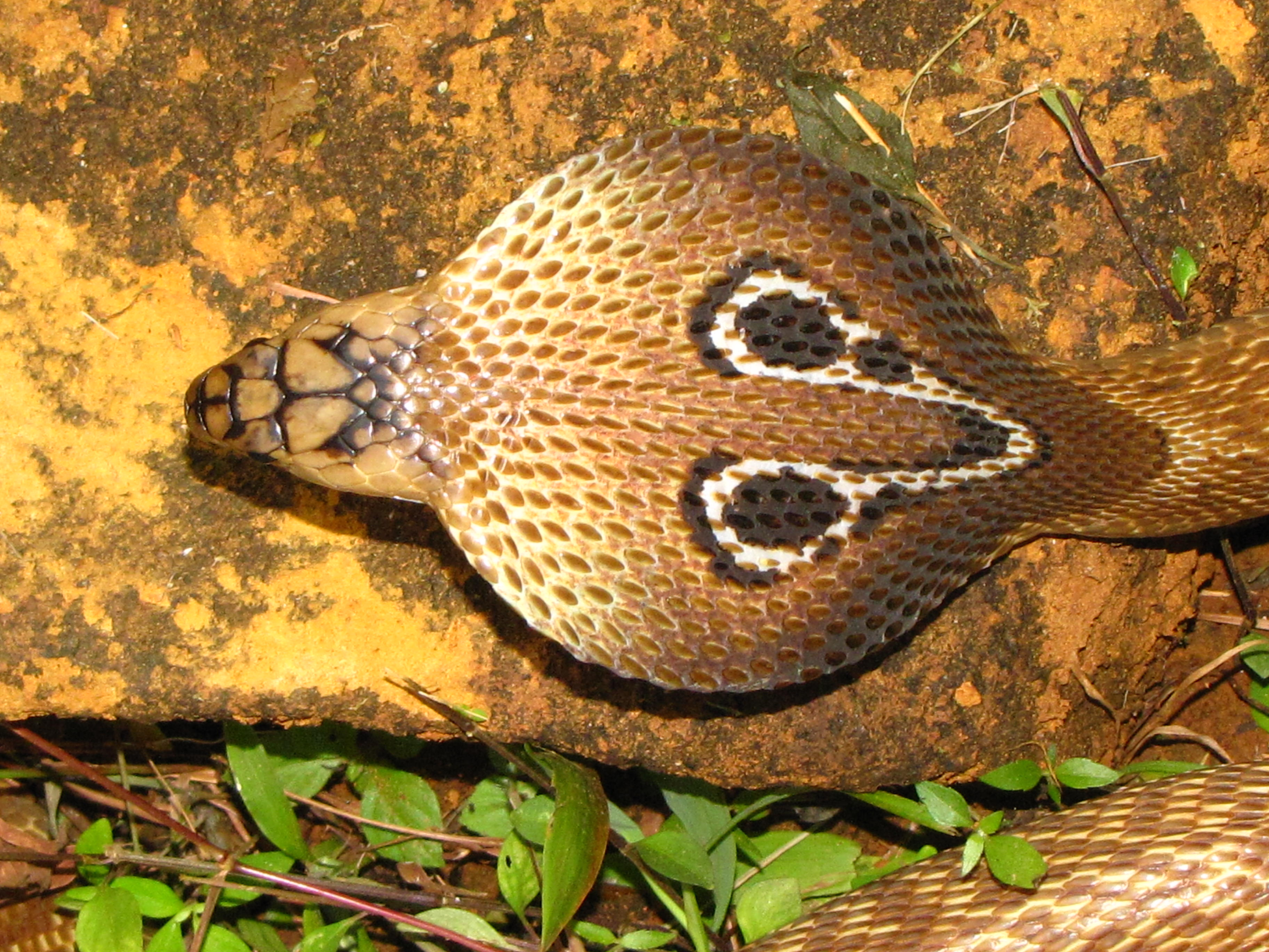 (Naja naja)